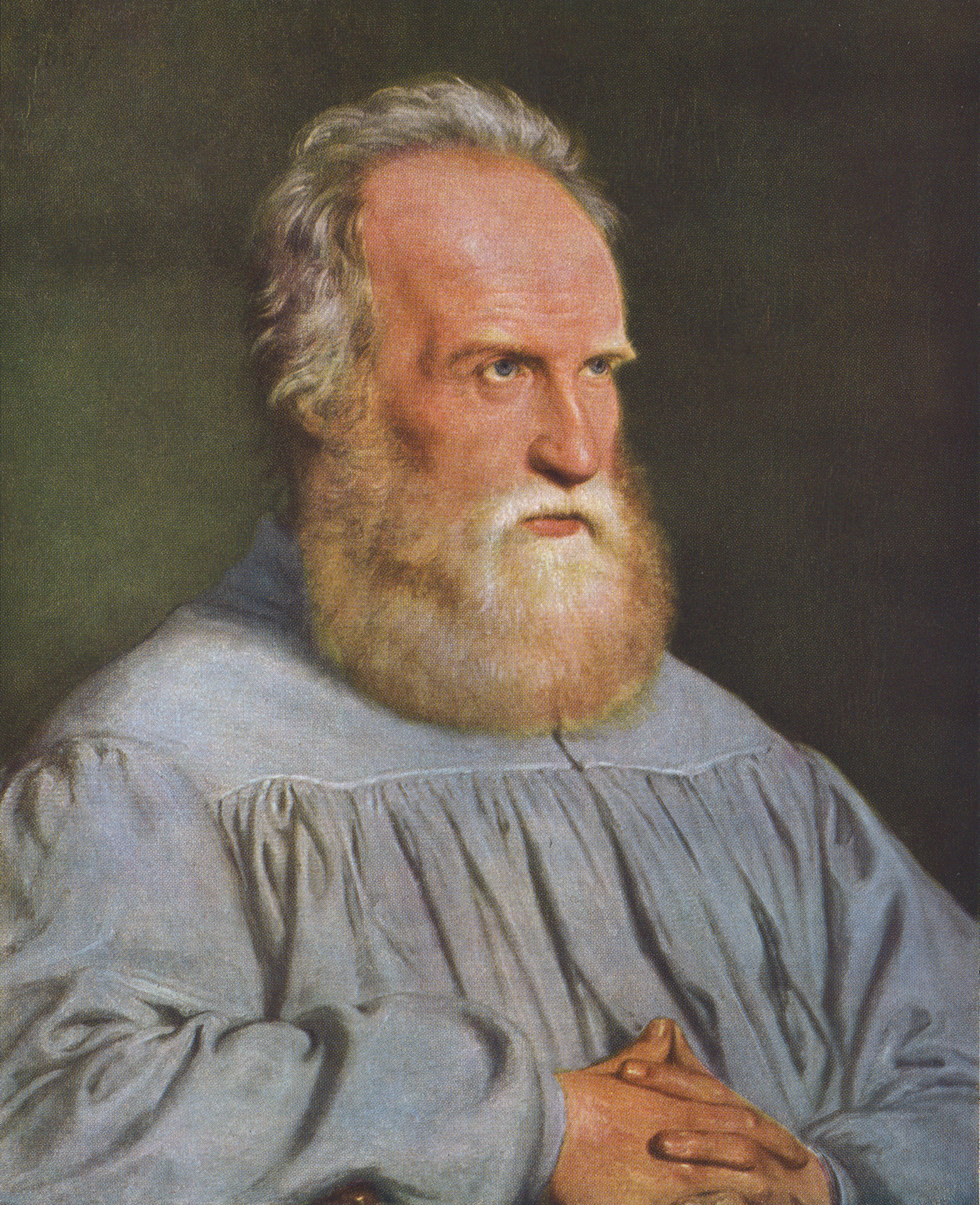 Herman Wilhelm Bissen (1798-1868), Danish sculptor.